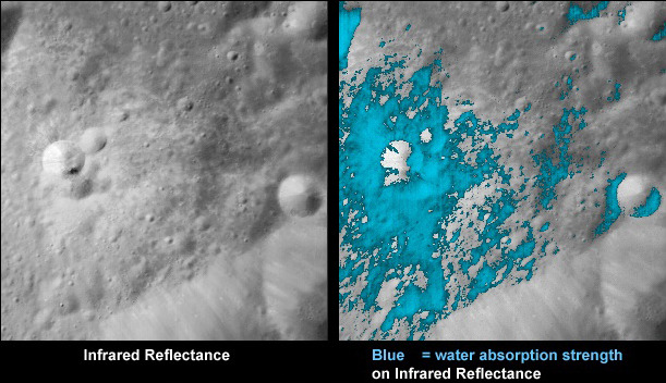 These images show a very young lunar crater on the side of the moon that faces away from Earth, as viewed by NASA's Moon Mineralogy Mapper on the Indian Space Research Organization's Chandrayaan-1 spacecraft. On the left is an image showing brightness at shorter infra-red wavelengths. On the right, the distribution of water-rich minerals (light blue) is shown around a small crater. Both water- and hydroxyl-rich materials were found to be associated with material ejected from the crater.